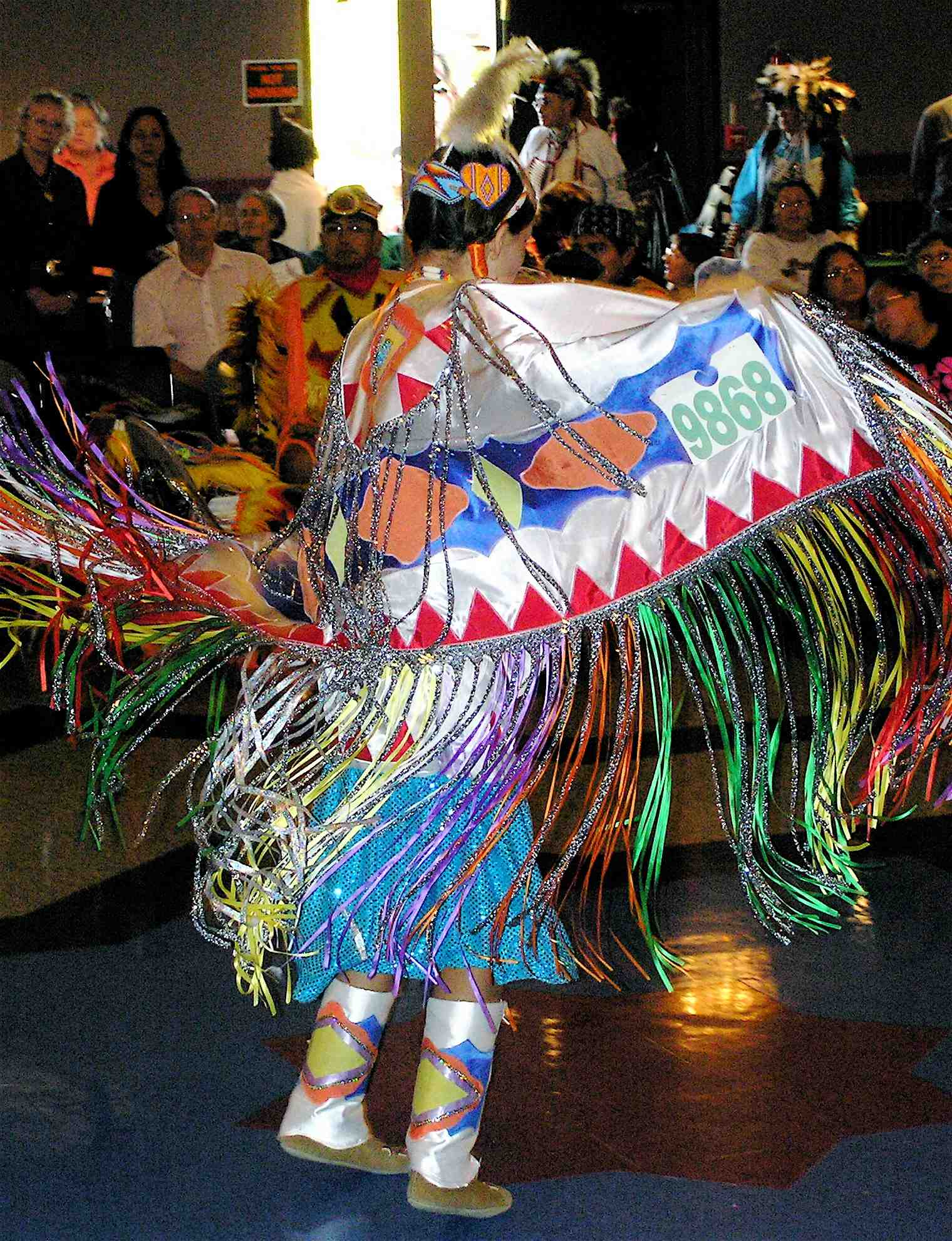 Image from Last Chance Community Pow Wow 2007, Helena, Montana